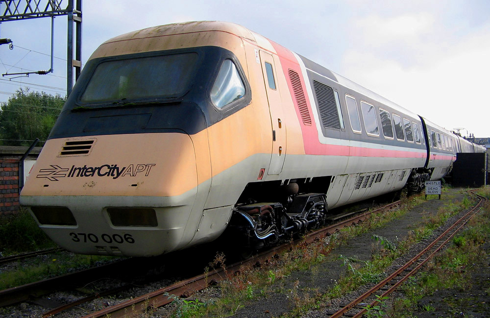 An APT at The Railway Age in Crewe. Photo by G-Man * Oct 2006